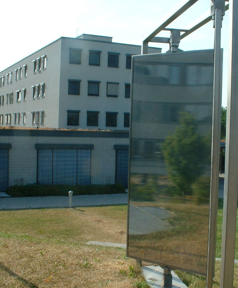 the German "Fachhochschule Ludwigshafen" (University of Applied Sciences)